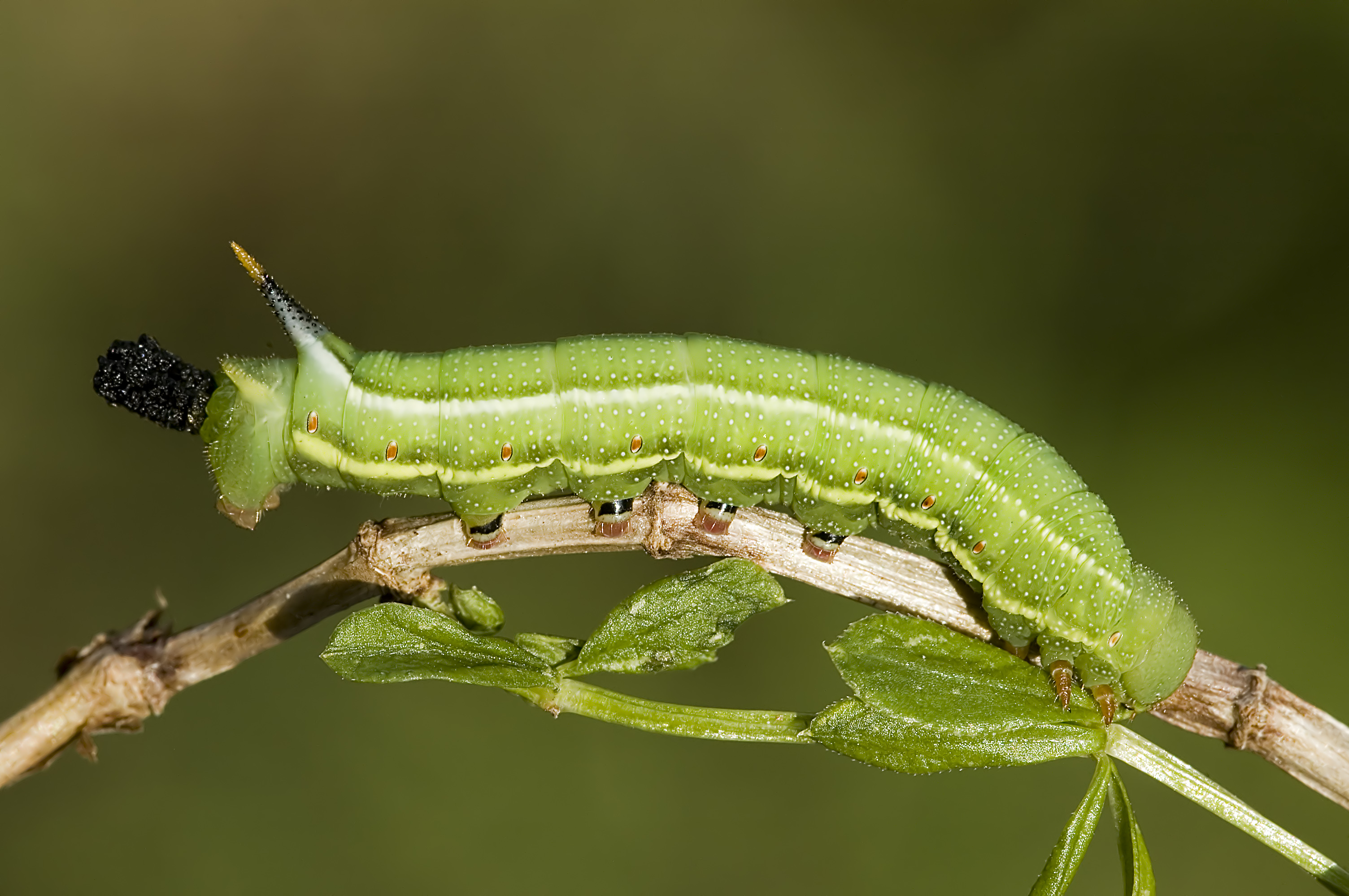 Hummingbird Hawk-moth